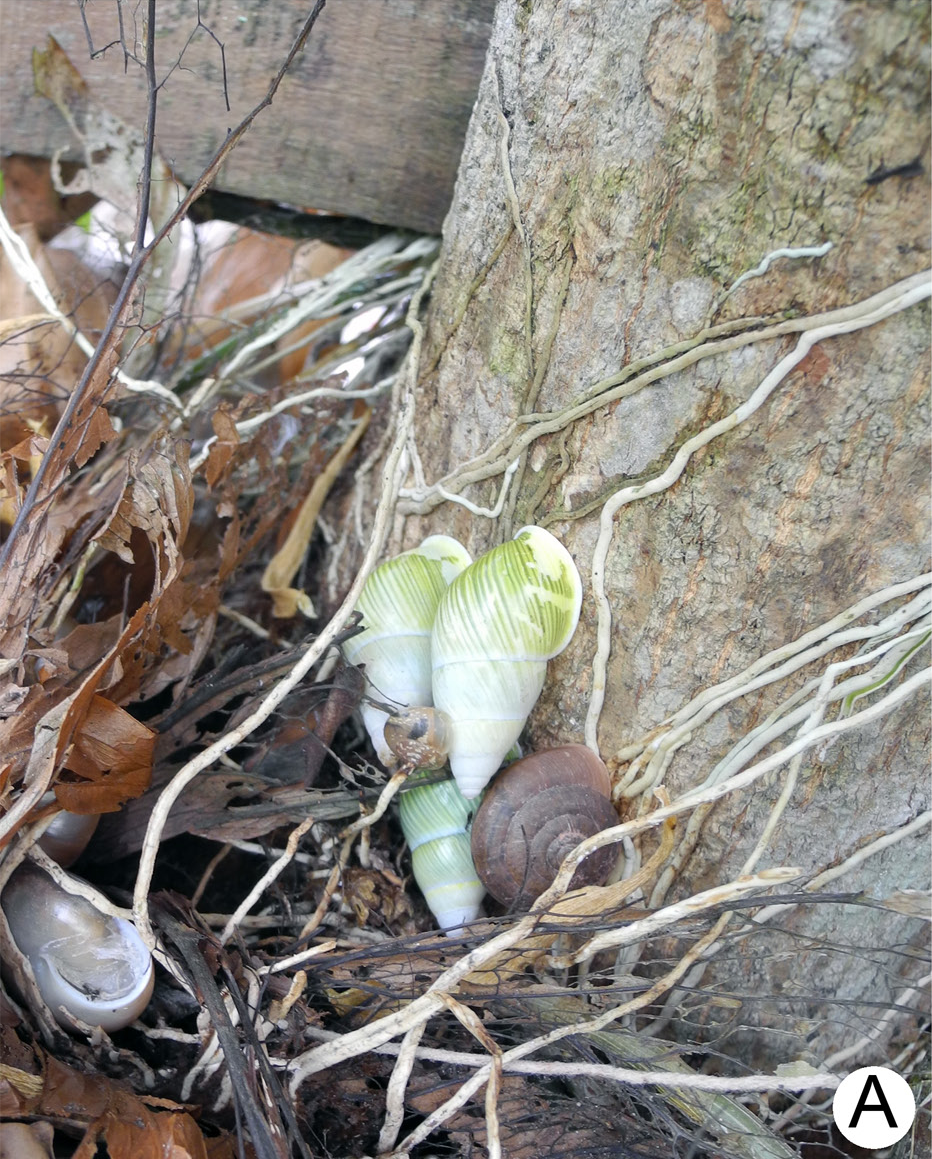 Photo of aestivating Amphidromus roseolabiatus from NamTurn Bridge, Bolikhamxay, Laos. Shell height is about 34 mm. They are inside sterile fronds of stag horn ferns, Platycerium.